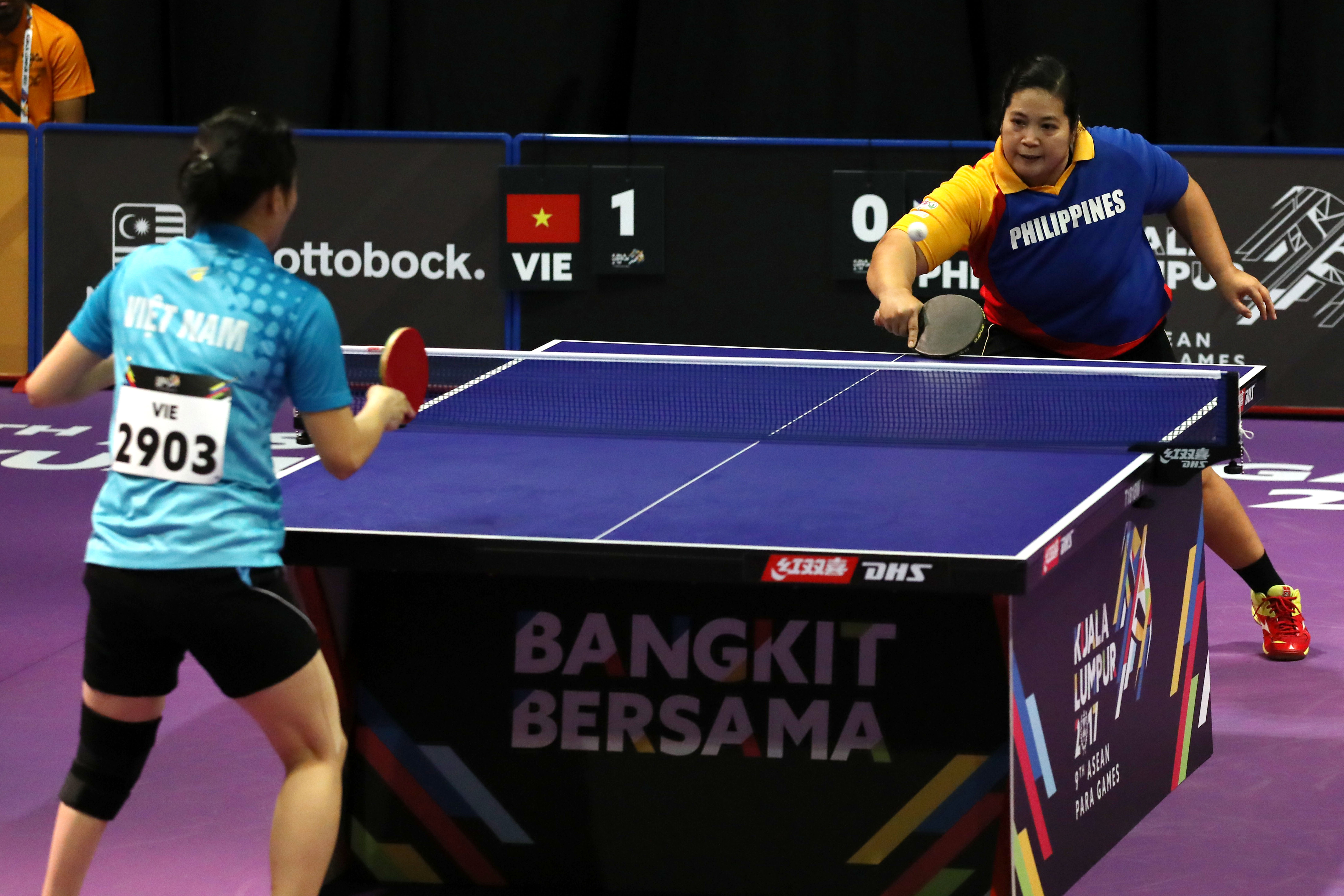 Josephine Medina (right) returns the ball against her Vietnamese opponent during their match at the 9th ASEAN Para Games held at the Malaysia International Trade and Exhibition Centre (MITEC) in Kuala Lumpur on Monday (September 18, 2017). Medina downed her opponent in five sets, 3-2, at the team event competition. (PNA photo by Joey O. Razon)